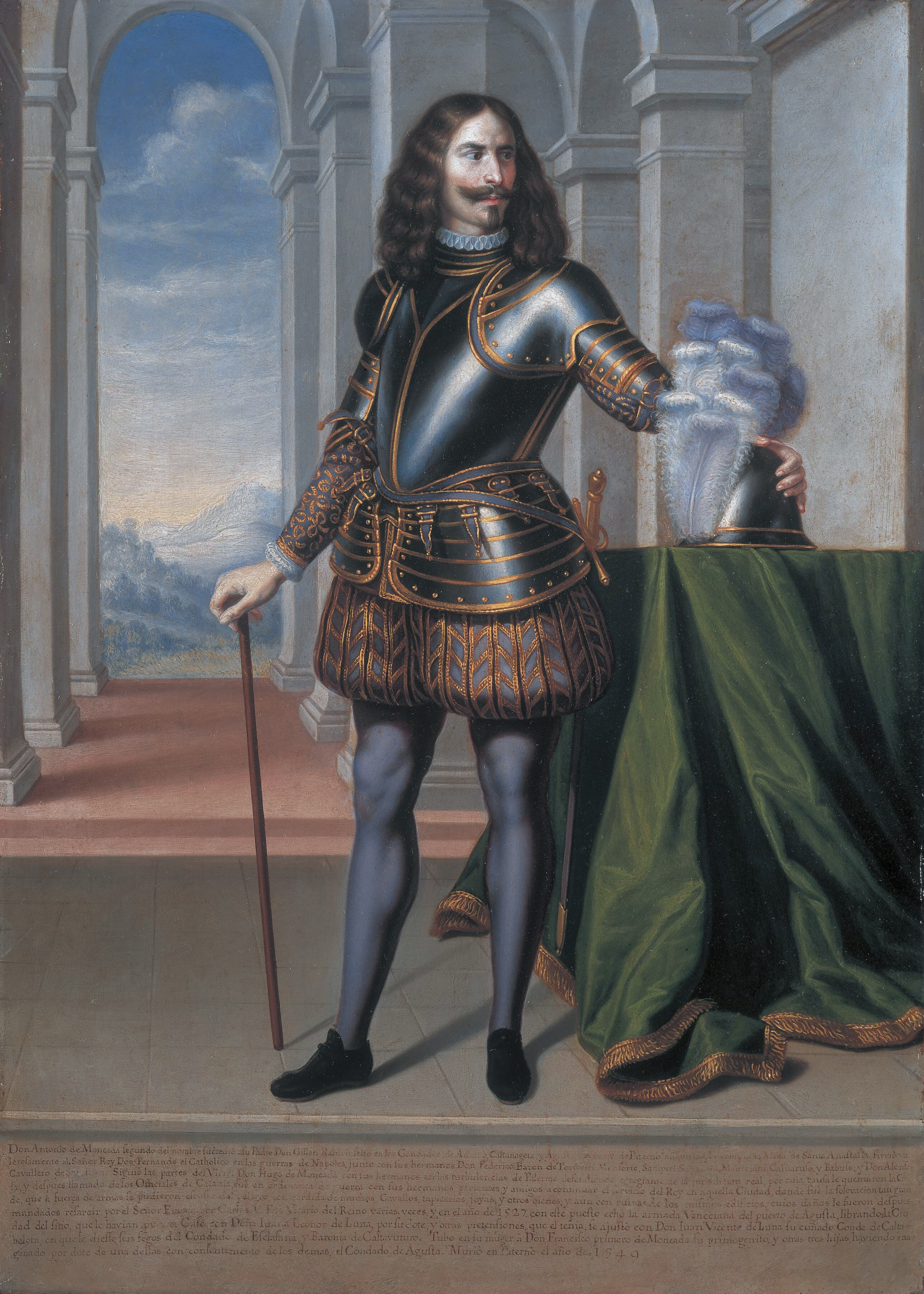 Don Antonio de Moncada (?-1549) oil on copper 36,2 x 25,7 cm 1650 - 1660 incribed b.: Don Antonio Moncada segundo del nombre sucedió a su Padre Don Gillén Ramón en los Condados de Adernó, Caltanageta y Augusto de Paterno adquirió por compra la Mota de Santa Anastasia, sirvio va / lerosamente al Señor Rey Don Fernando el Catholico en las guerras de Napoles, junto con sus hermanos Don Federico Baron de Tortotorici, Monforte, Samperi, Saponara, Maurciani, Calvaruso y Babuso y Don Alonso / cavallero de San Juan. Siguio Las partes del Virrey Don Hugo de Moncada con sus hermanos en las turbulencias de Palermo defendiendo egregiamente la jurisdicion real, por cuia causa le quemaron la ca / sa, y despues llamado de los officiales de Catania, fue en ordenanca de guerra con sus hermanos parientes y amigos a continuar el servicio del Rey en aquella Ciudad, donde fue la solevacion tan gran / de, que a fuerza de armas se pudieron escusar del peligro de perdida de muchos cavallos, tapicerias, joyas y otros bienes, y aun con ruina de los mismos edificios, cuios daños le fueron despues / mandados refarcir por el Señor Emperador Carlos V. Fue vicario del reino varias veces y en el año de 1527, con este puesto echo La armada Veneciana del puerto de Agusta, librando la ciu / dad del sitio, que le ha havian pu... Sasó con Doña Iuana Leonor de Luna, por su dote, y otras pretensiones, que el tenía, se ajustó con Don Vicente de Luna su cuñado Conde de Calta / belota, en que le diesse seis segos del Condado de Esclafana y Baronia de Caltava turo. Tubo en su muger a Don Francisco primero de Moncada su primogenito y otras tres hijas, haviendo ena / genado por dote de una de ellas con consentimiento por dote de una de ellas con consentimiento de los demas el Condado de Agusta. Murio en Paterno el año de 1549